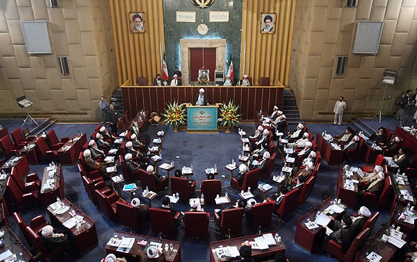 Fourth Assembly of Experts of the Leadership, The second official meeting - 4 September 2007